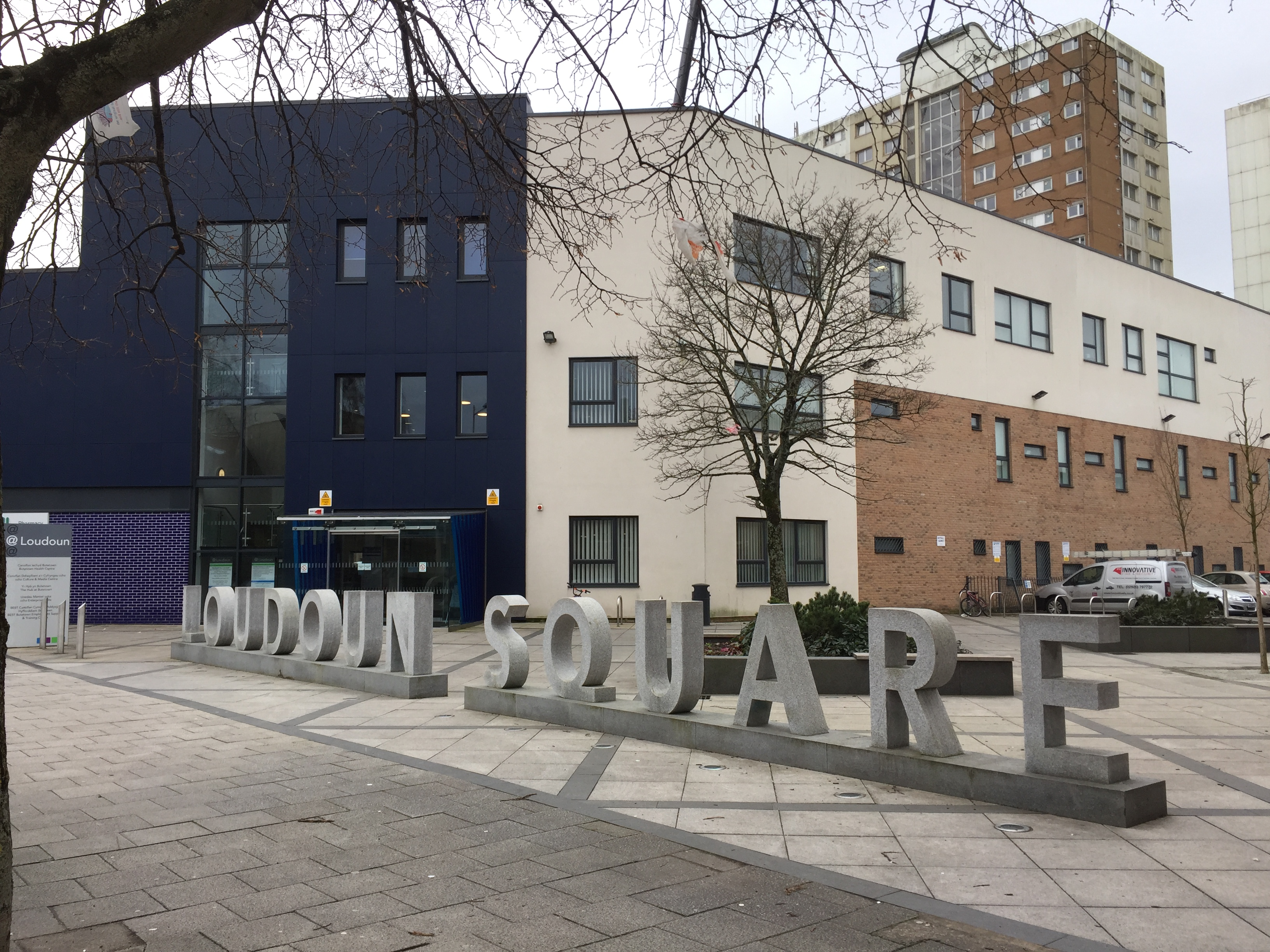 Loudoun Square, Butetown, Cardiff in 2016